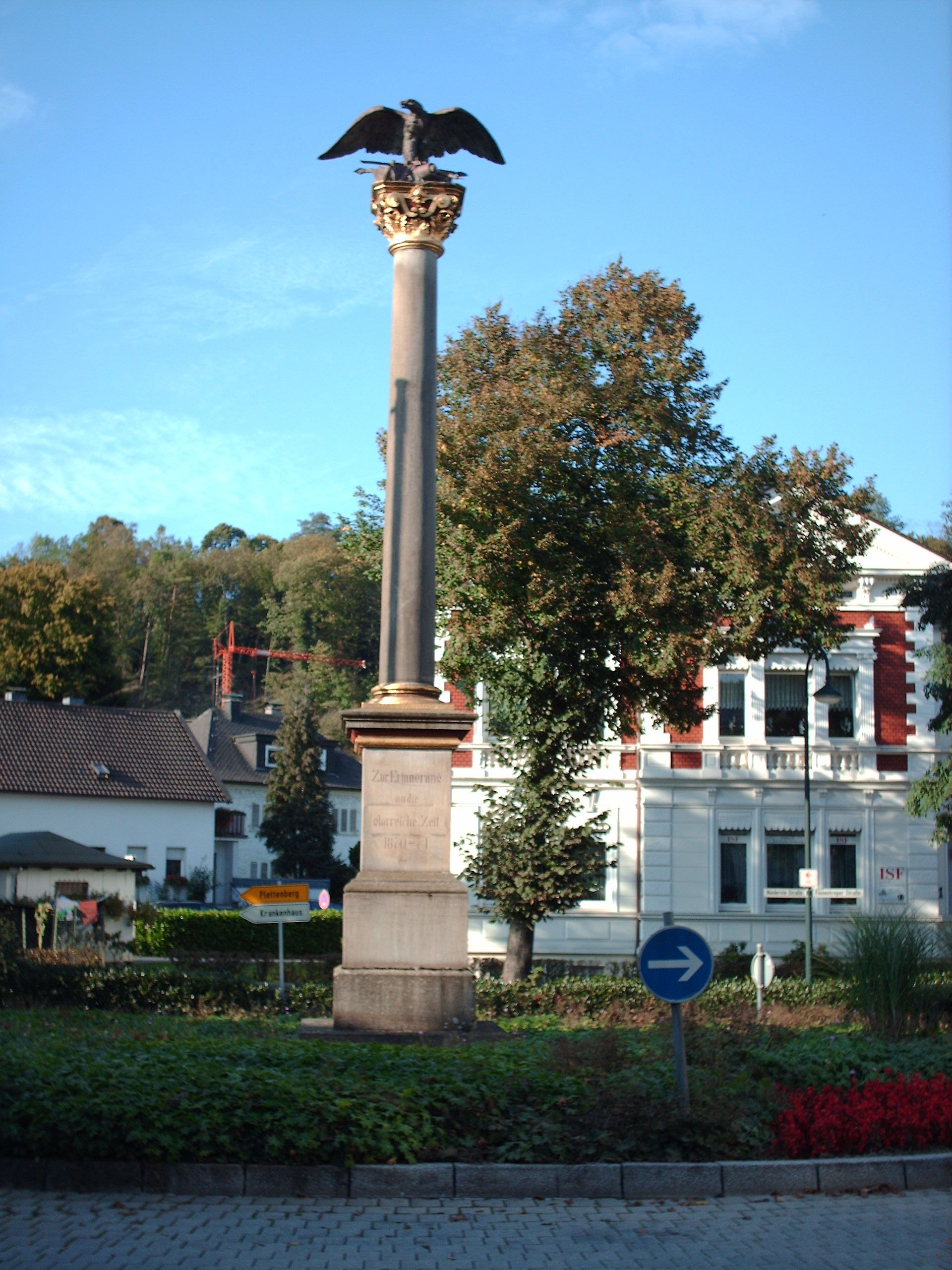 Column, Attendorn, Germany check usage